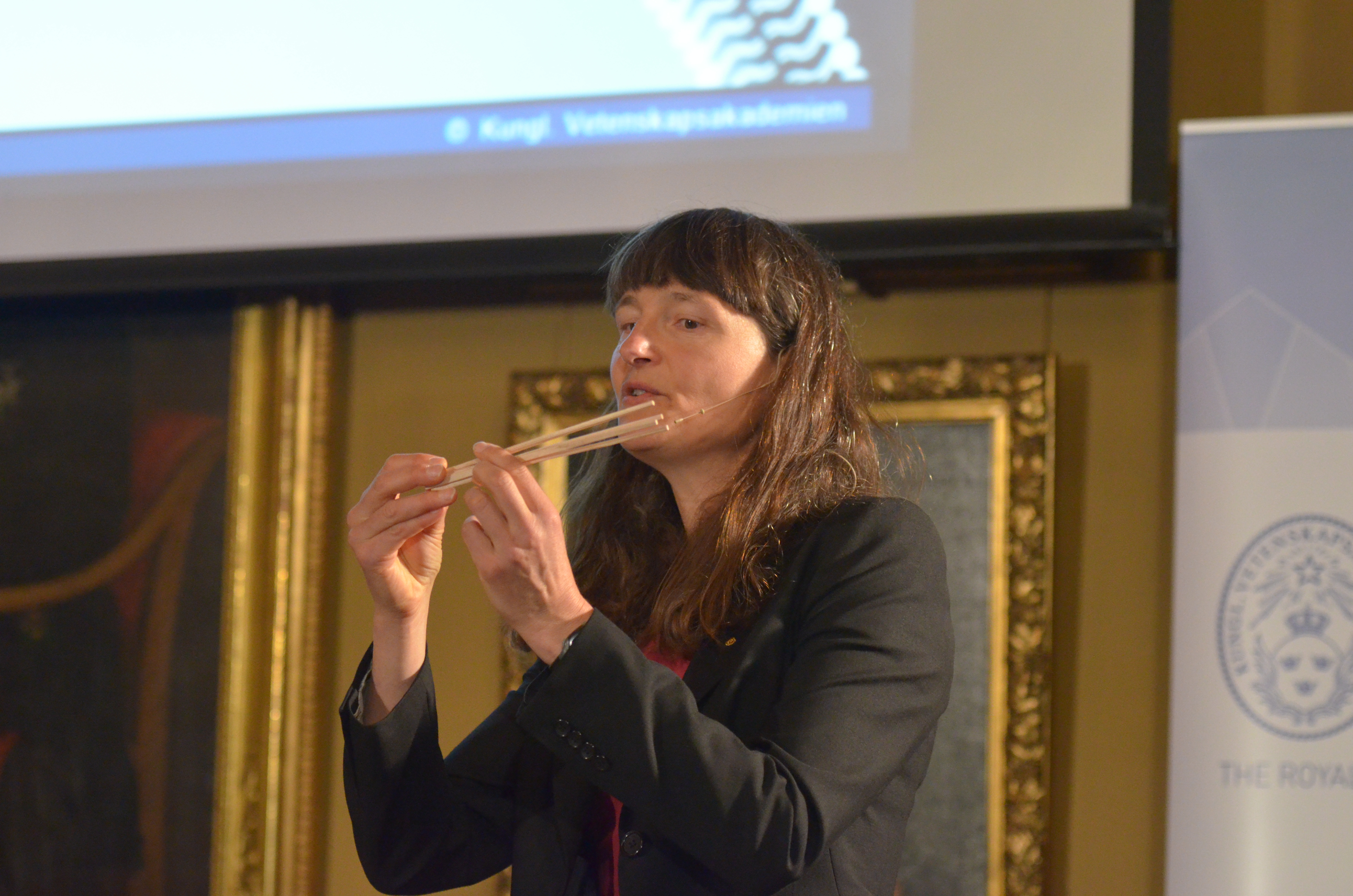 Swedish professor in physical chemistry Sara Snogerup Linse demonstrates the research in G-protein-coupled receptors, at the announcement of Nobel laureates in chemistry 2012 atr the Royal Swedish Academy of Sciences in Stockholm